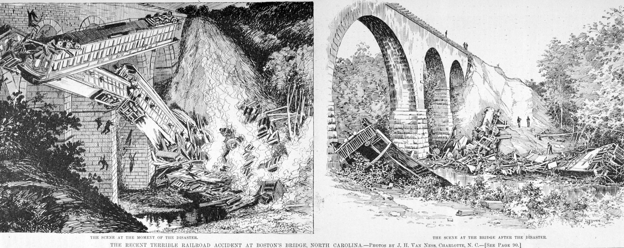 Really should be "Bostian Bridge" in Iredell County.